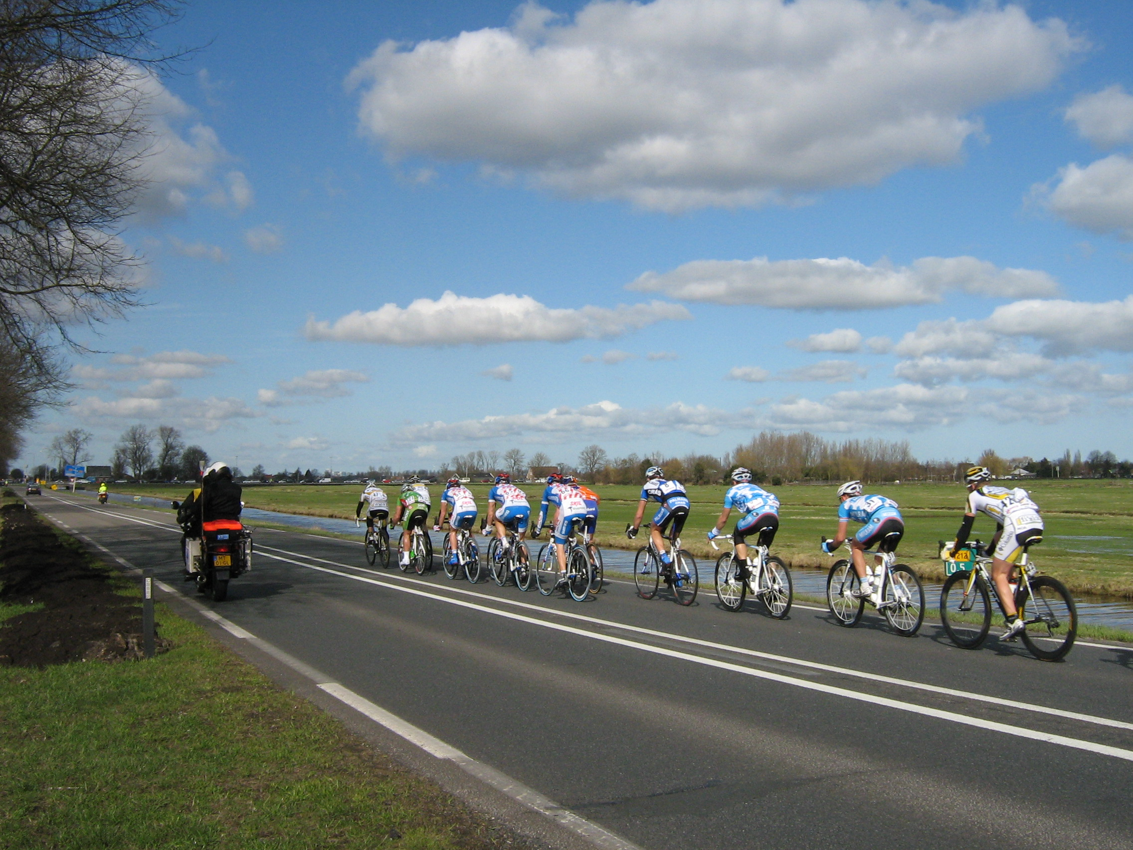 Group of professional road cyclists participating in the 2010 Ronde van het Groene Hart ("Tour of the Green Heart"). Taken along the N212 road north of Wilnis, the Netherlands, just south of the crossing with the N201. Photograph taken at circa 14:20 on March 21 2010. (Metadata is not entirely correct.)